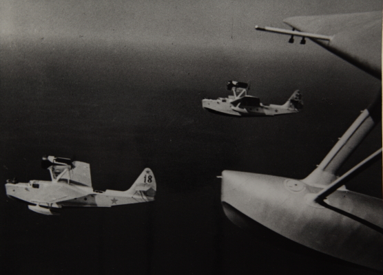 Catalog #: 00075628 Manufacturer: Beriev Designation: MBR-2 Notes: 1939 Beriev MBR-2